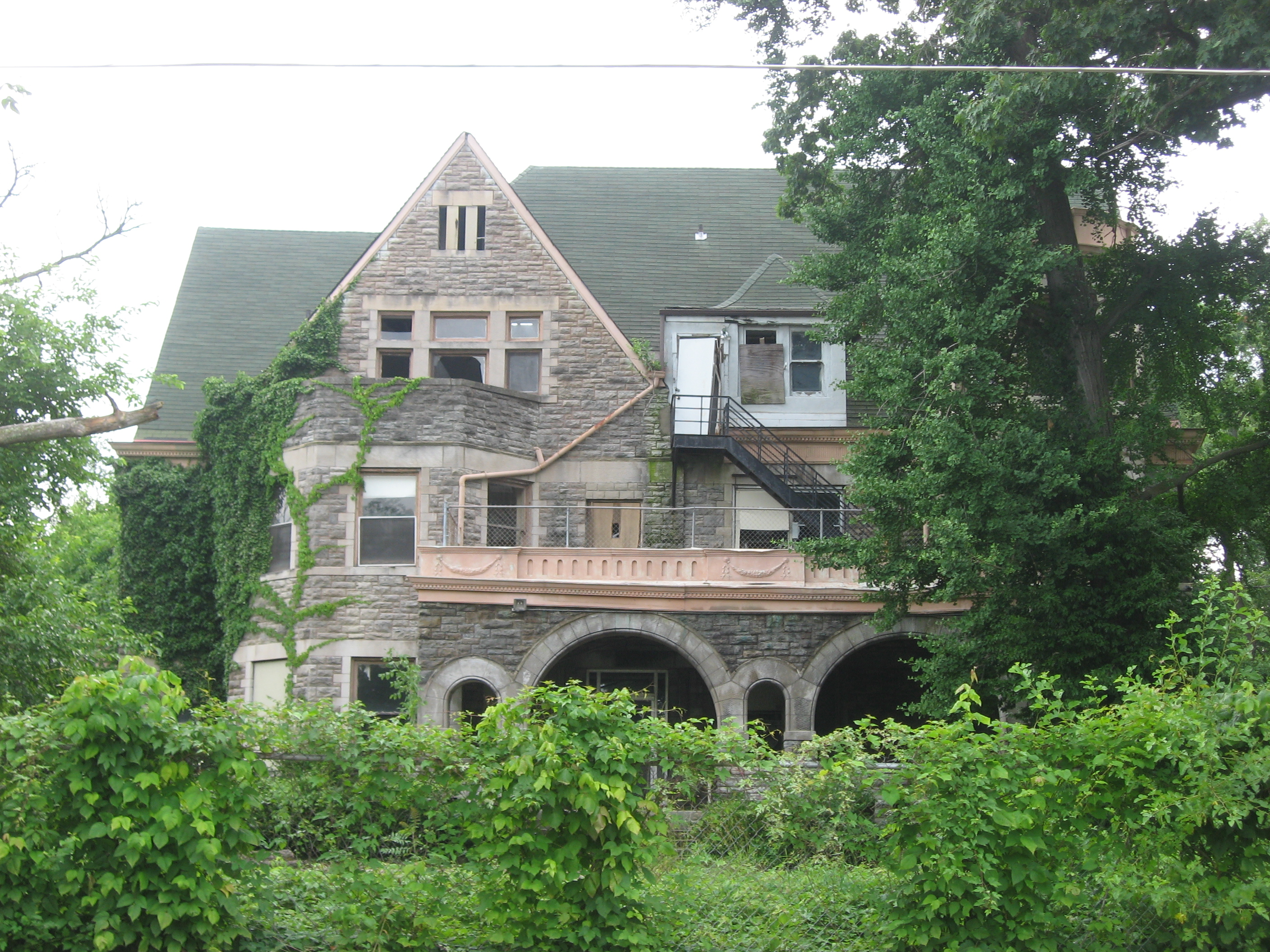 Front of the Mary A. Wolfe House, located at 965 Burton Avenue in Cincinnati, Ohio, United States. Built in 1888, it is listed on the National Register of Historic Places.